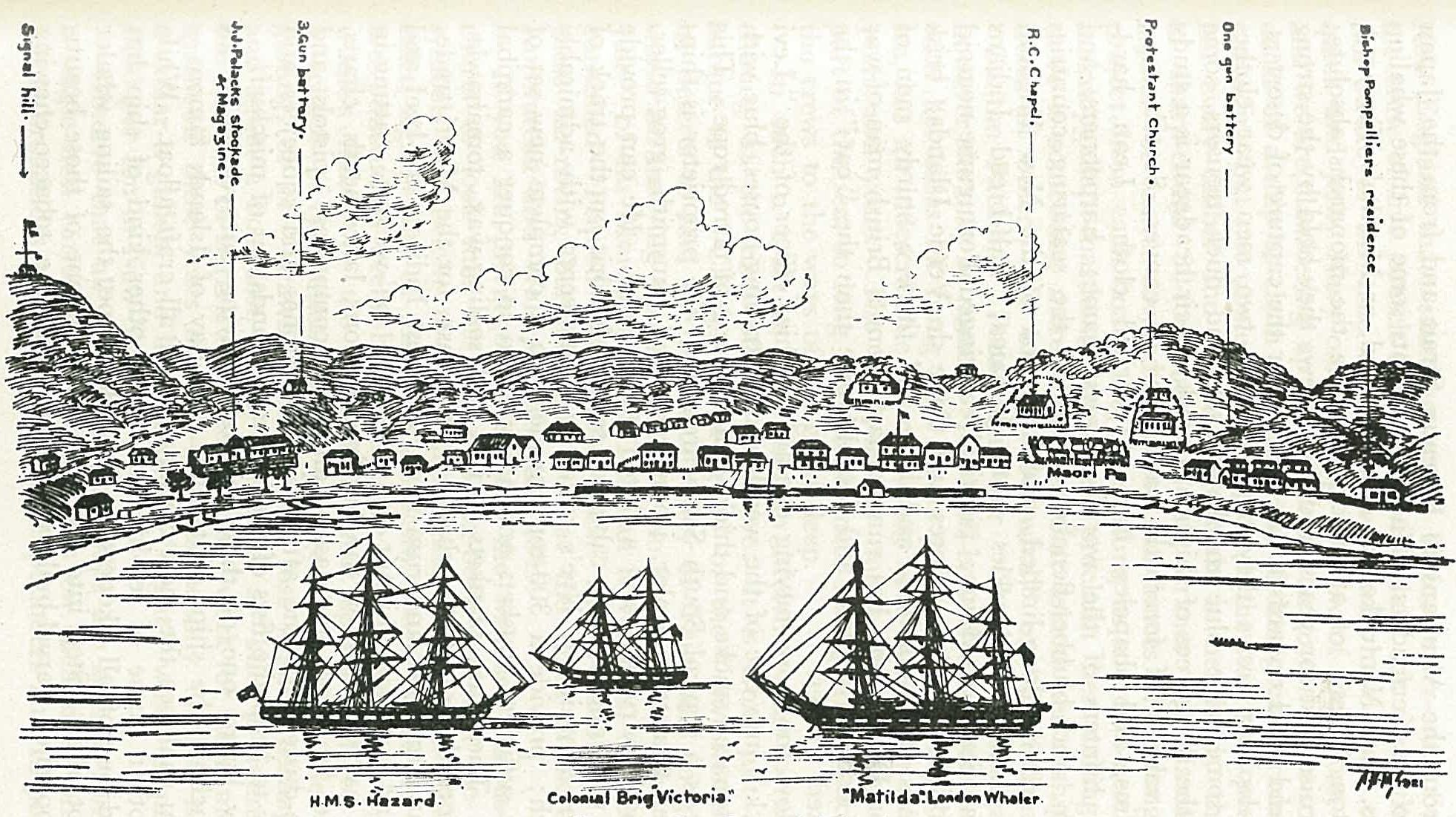 Kororareka, Bay of Islands. This drawings, from a sketch by Captain Clayton, of Kororareka, 10th March, 1845, shows the town as it was on the day before its destruction by Hone Heke and Kawiti.